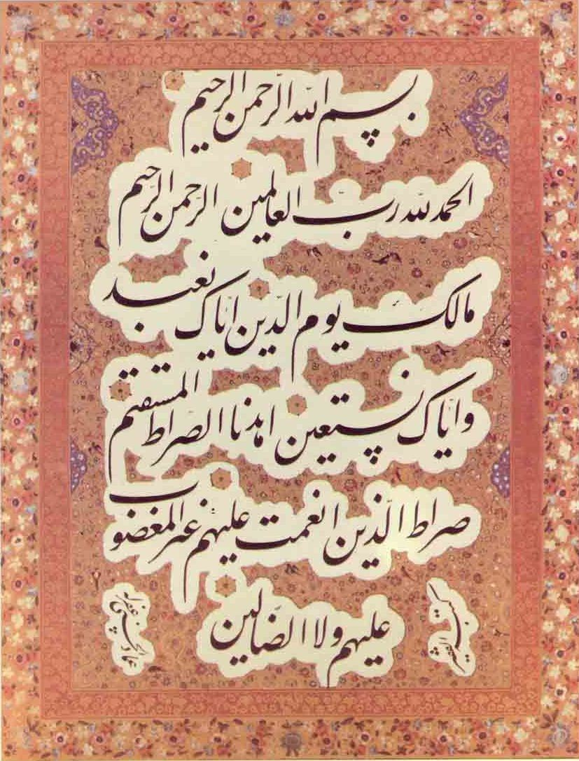 Al-Fatiha calligraphy by Mir Emad Hassani